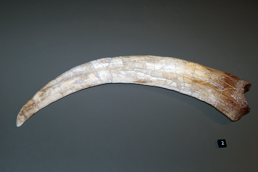 Photo: cast of a Therizinosaurus cheloniformis claw at the Australian Museum, Sydney.